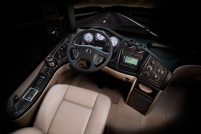 Class A Luxury Diesel Pushers Motorhome Cockpit / Dash. The is an example of a 45 foot Class A Tuscany motorhome built in the United States by Thor Motor Coach.